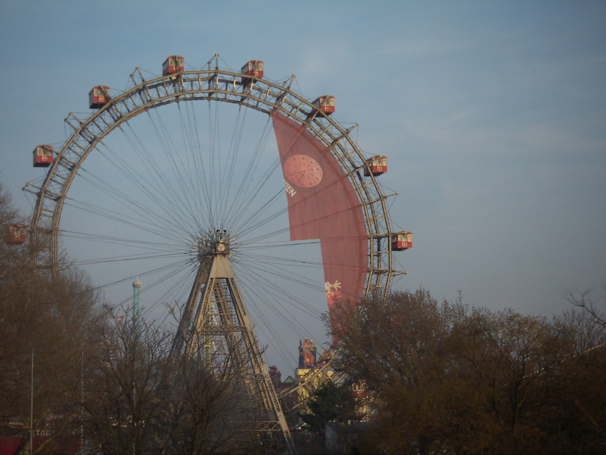 Austria, Vienna, Prater, Wiener Riesenrad